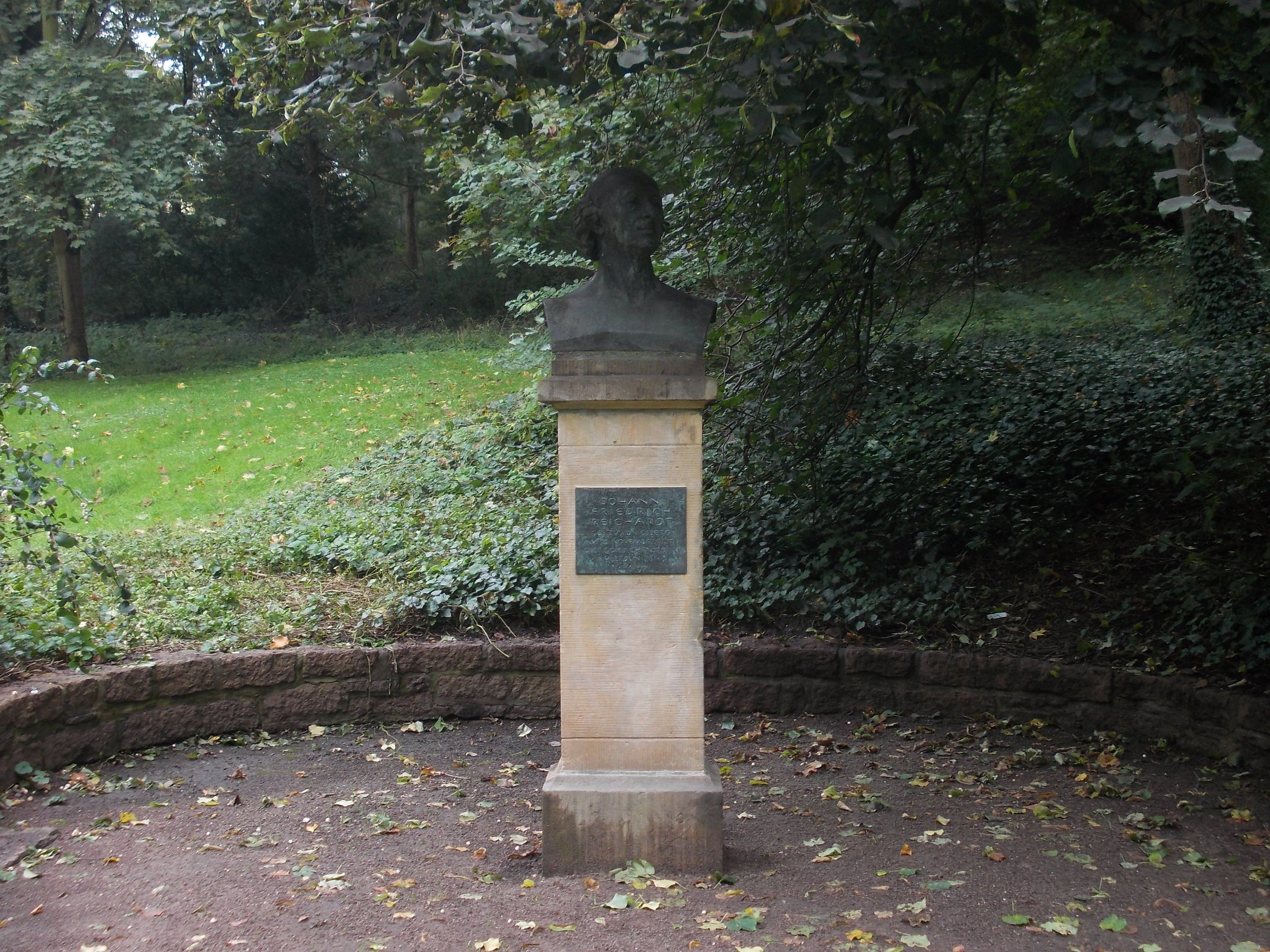 Reichardt's Garden in Halle/Saale (Saxony-Anhalt), memorial to Johann Friedrich Reichardt